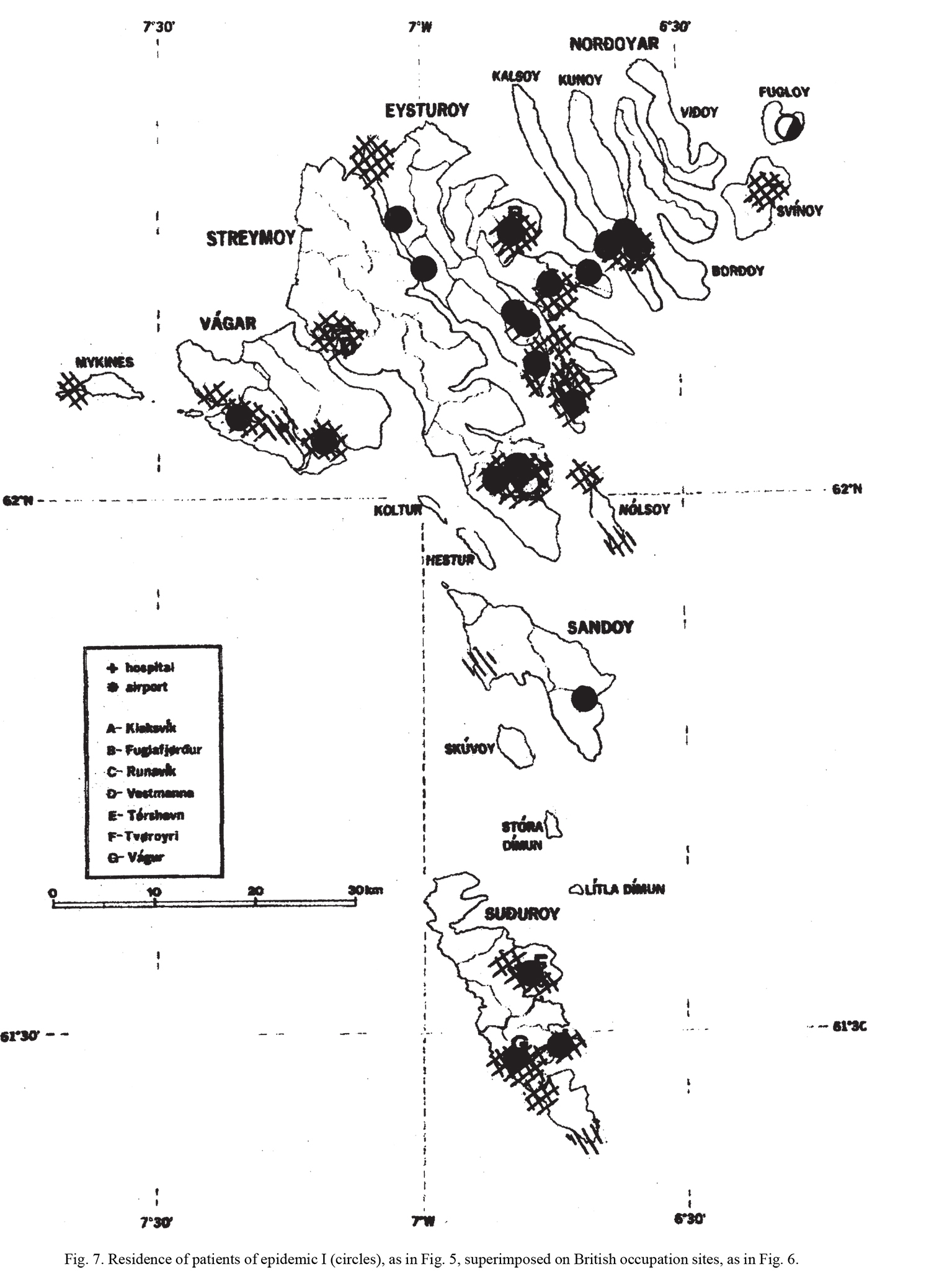 map of Faroe islands Multiple Sclerosis cases according to Prof John F Kurtzke